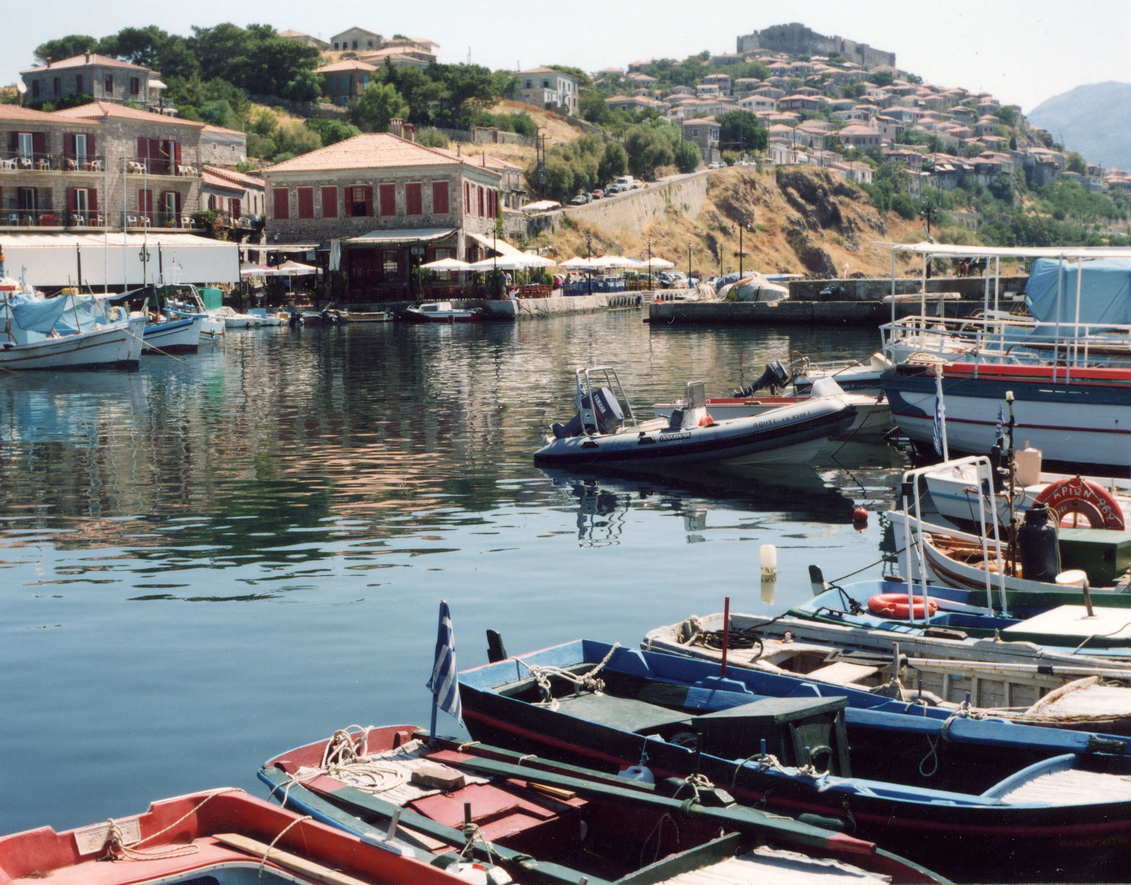 Molivos Harbor, Lesvos, Greece